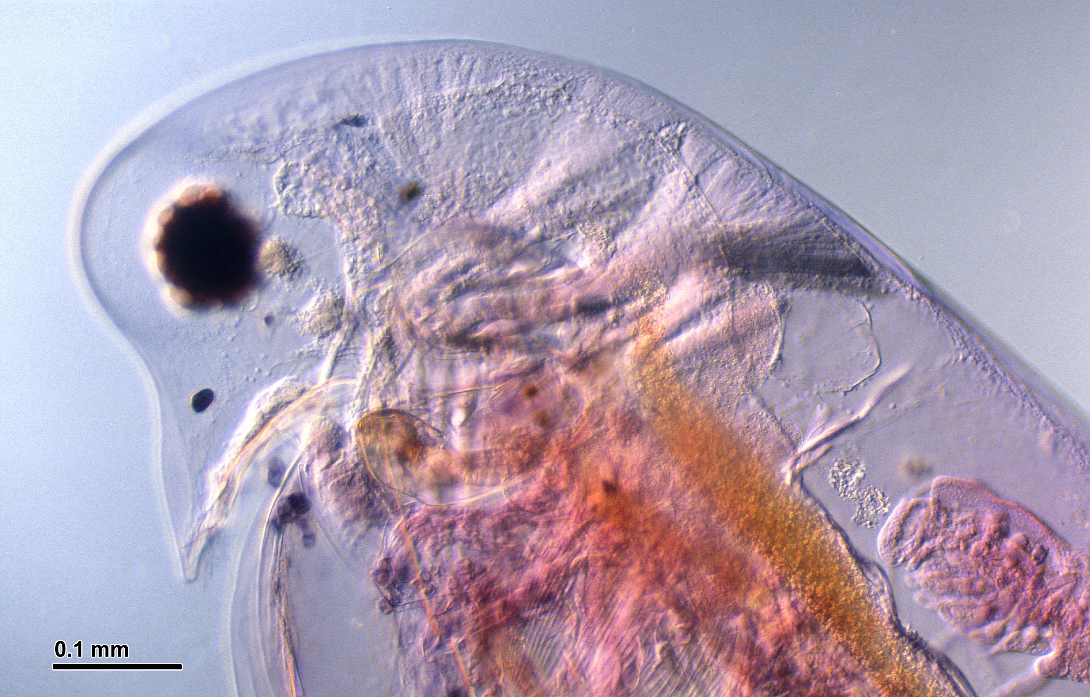 Daphnia (Daphnia): Total preparation. Stain: Carmine. Optical microscopy technique: Differential interference contrast (Nomarski). Magnification: 300x (for picture width 26 cm ~ A4 format).